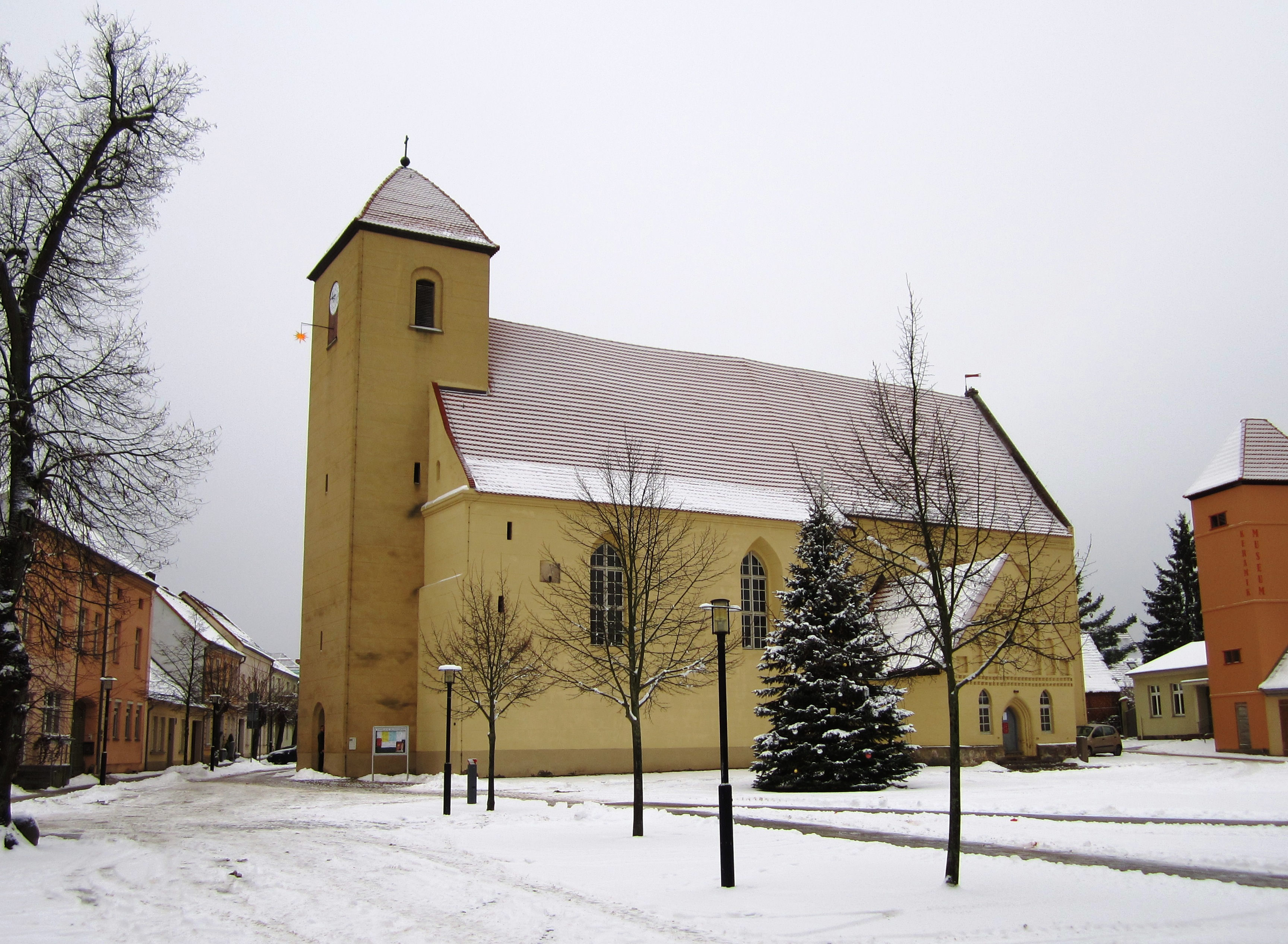 St.Laurentius church, Rheinsberg city, Ostprignitz-Ruppin district, Brandenburg state, Germany